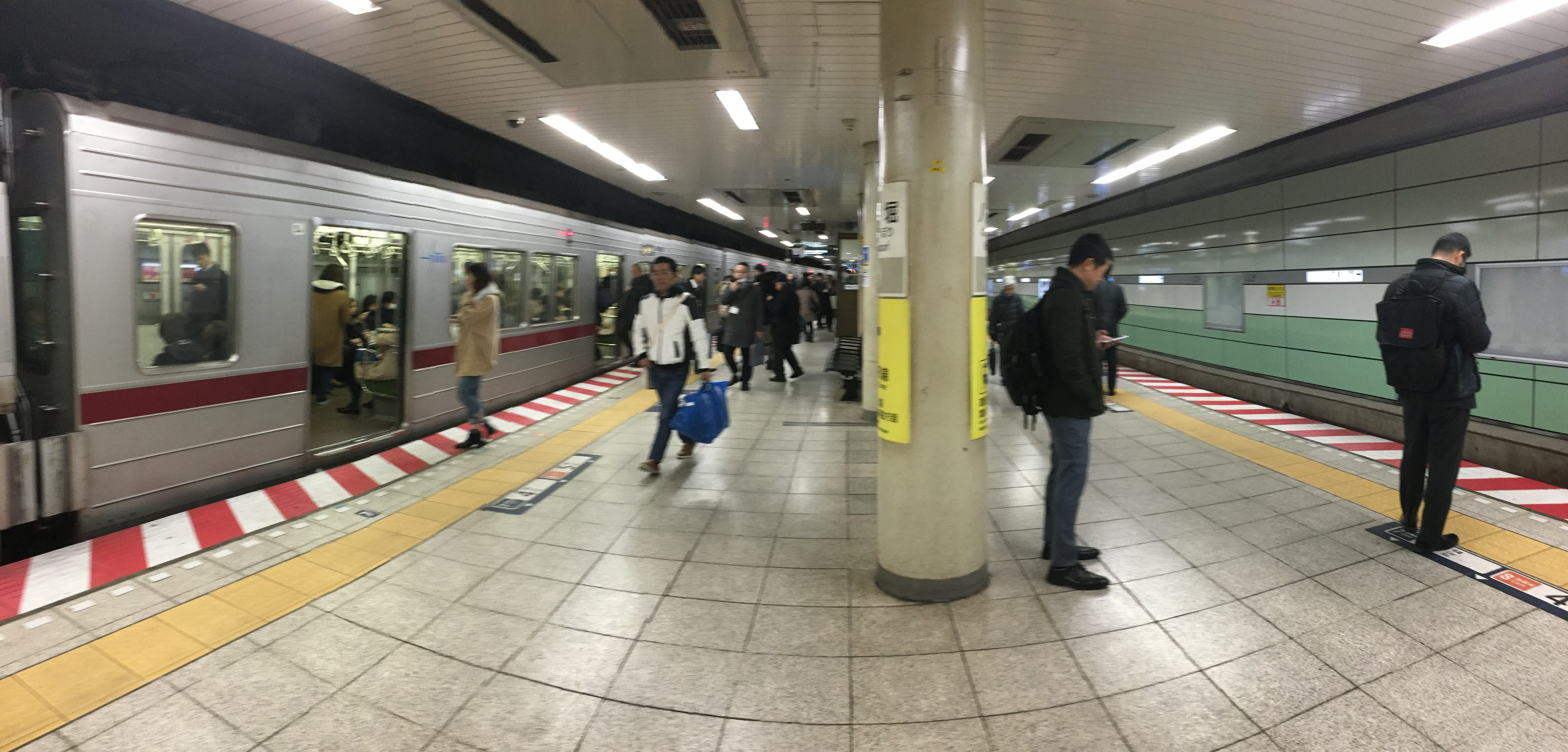 日比谷線、八丁堀駅のホーム (Hatchōbori Station platforms, Hibya Line)